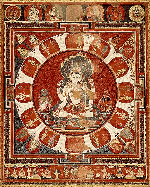 Mandala of Vishnu, Painting; Pata/Paubha, Mineral pigments on cotton cloth, 28 3/8 x 23 3/8 in. (72.07 x 59.37 cm) Made in: Nepal From the Nasli and Alice Heeramaneck Collection, Museum Associates Purchase (M.77.19.5)